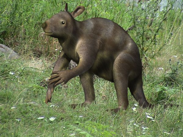 Propleopus oscillans, Pleistocene of Australia. Digital.